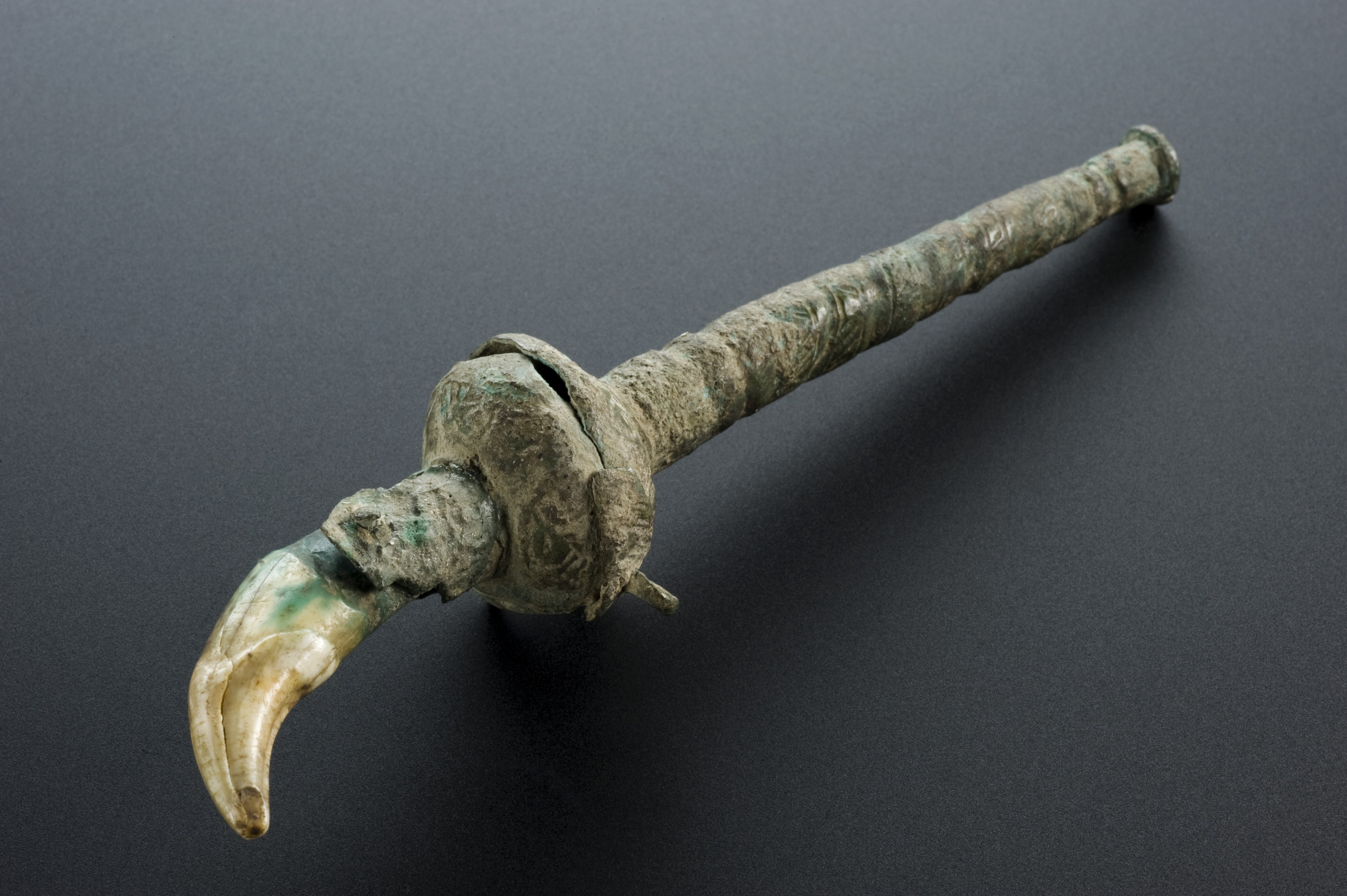 Teething, when the teeth are breaking through the gums, can be a painful process for some babies. A teething charm is used in the hope it will help them through this difficult time. Pliny, a Roman author writing in the first century CE, recommended that a wolf or horse’s tooth be placed on the child’s body to help with teething but not to let the tooth touch the floor. This charm has a tooth set into a bronze handle. maker: Unknown maker Place made: Roman Republic and Empire Wellcome Images Keywords: amulet; teething